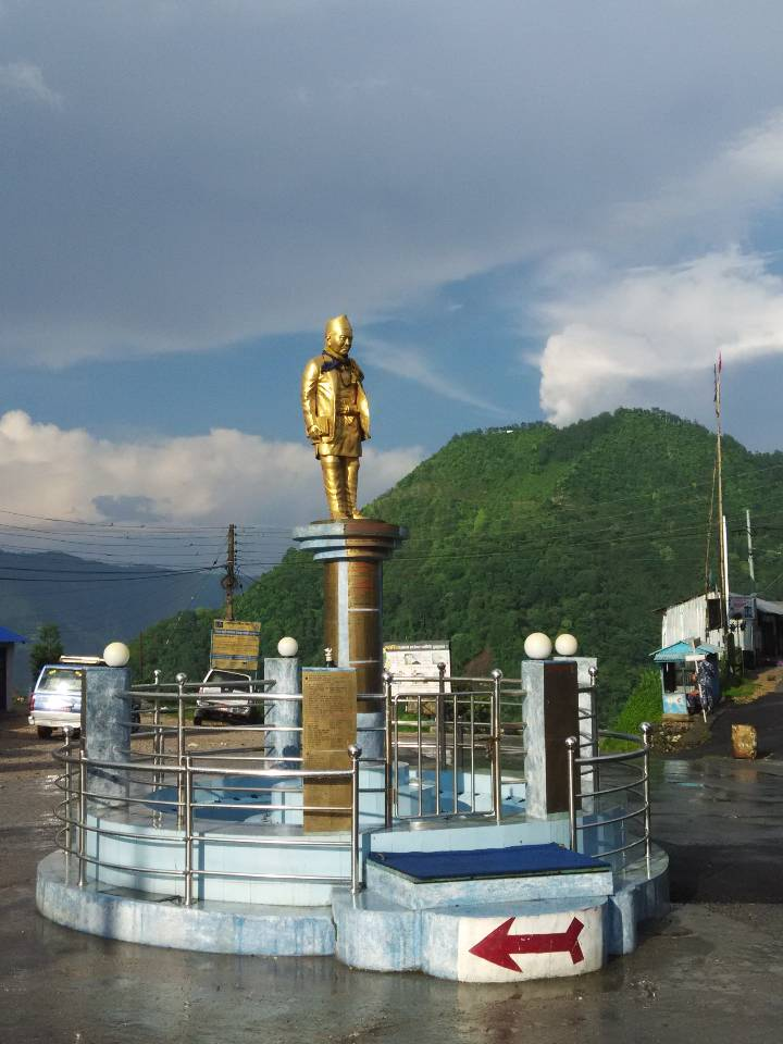 Iman singh chemjong Statue at Bhedetaar.